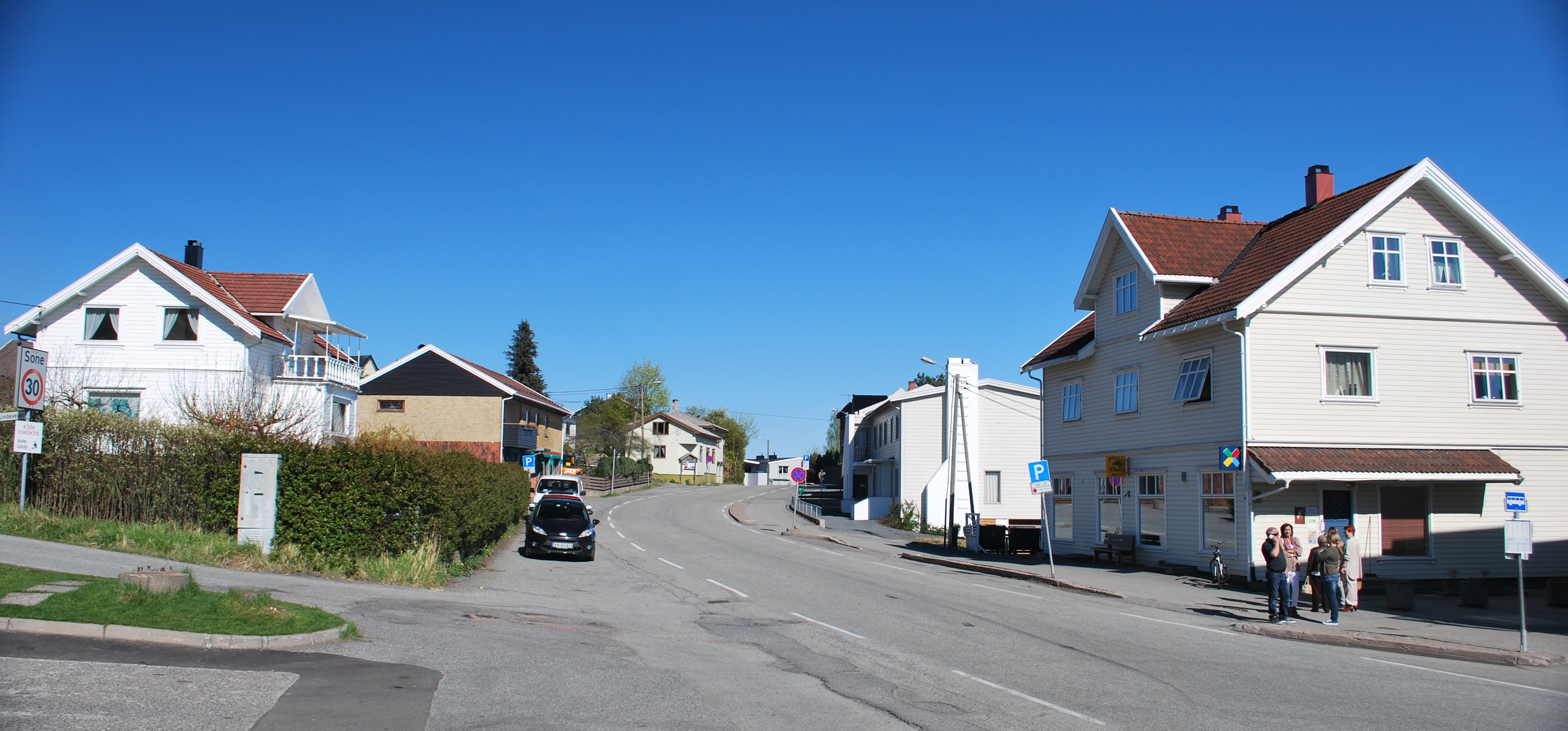 The street Østre Strandvei, Tofte village, Hurum